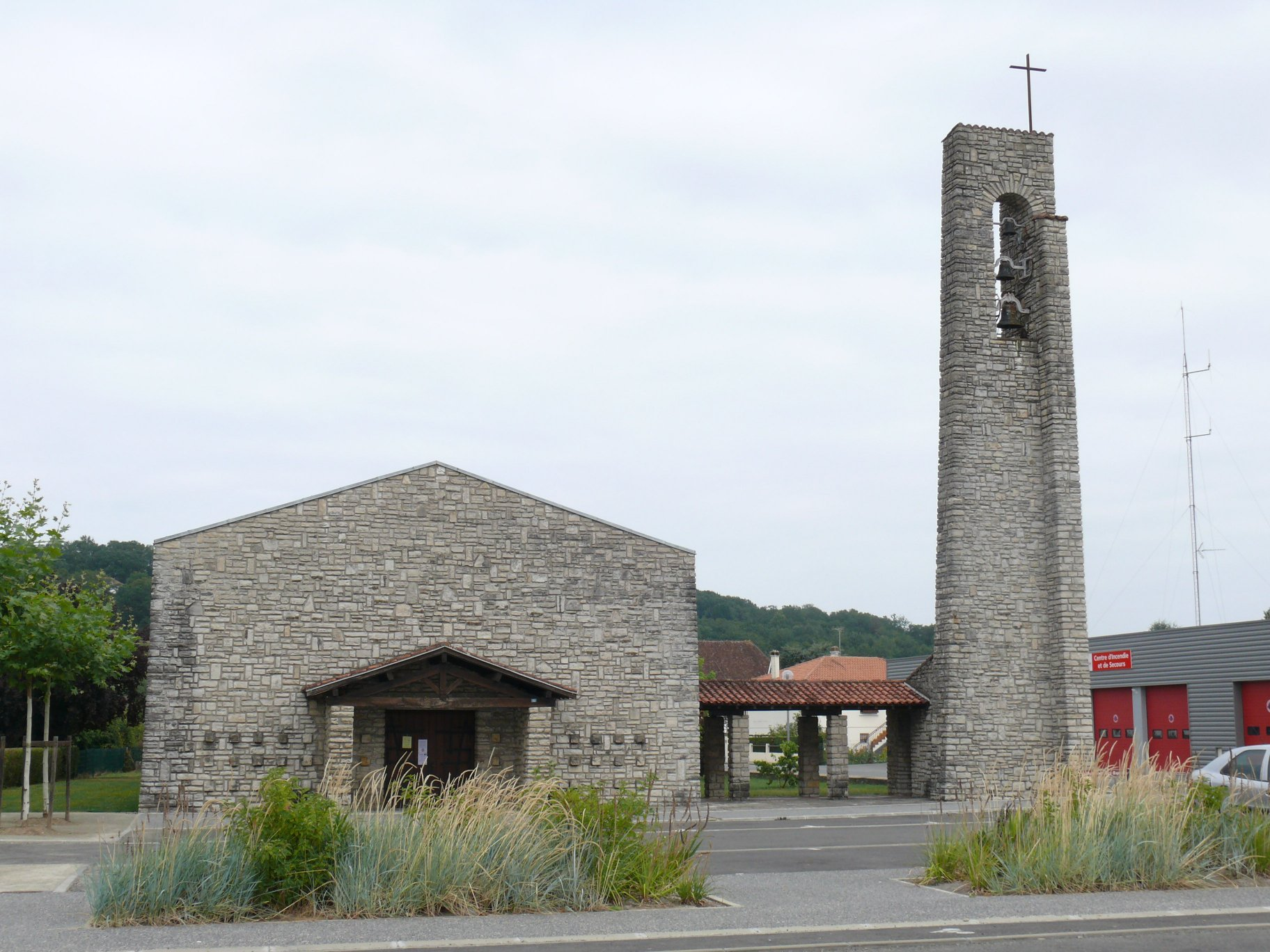 Saint-John-the-Baptist's church of Puyoô (Pyrénées-Atlantiques, Aquitaine, France).